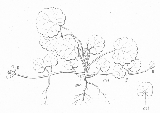 Glechoma hederacea, seedling. cot = cotyledons; ga gemma accessoria (axillary bud). Shoots (II) from the hypocotyl and cotyledons have been spaced for clarity.